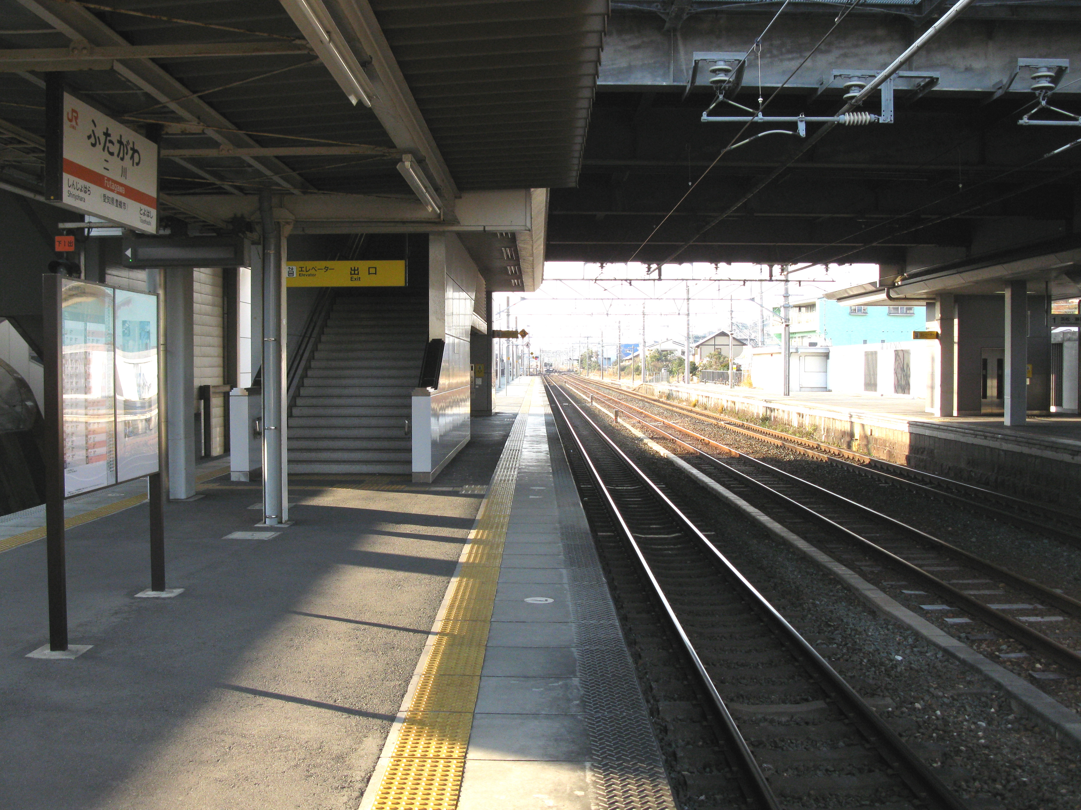 The platforms at Futagawa Station on the Central Japan Railway(JR Central) Tōkaidō Main Line in Toyohashi city, Aichi prefecture, Japan